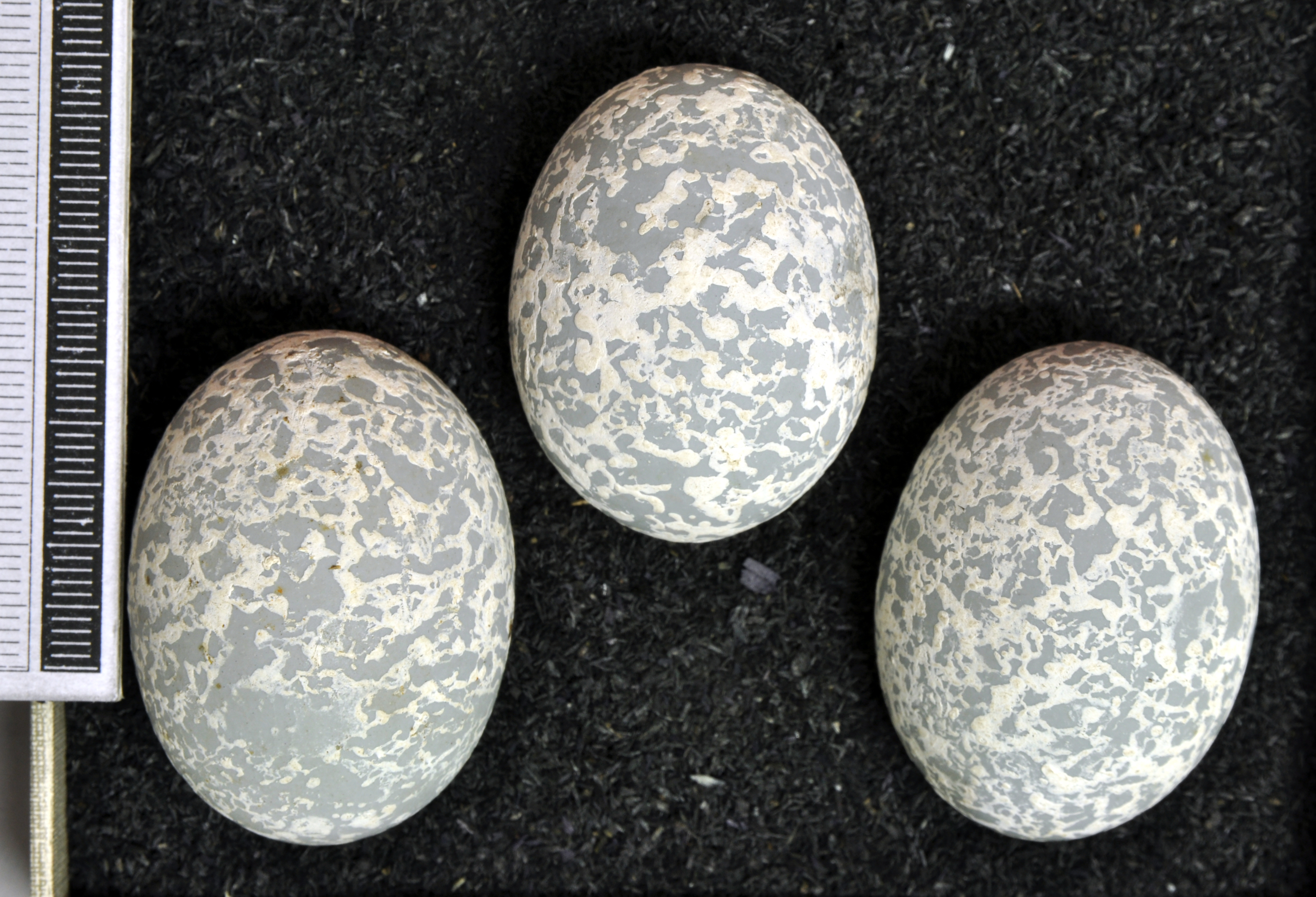 Guira cuckoo Guira guira , egg, Coll. Museum Wiesbaden